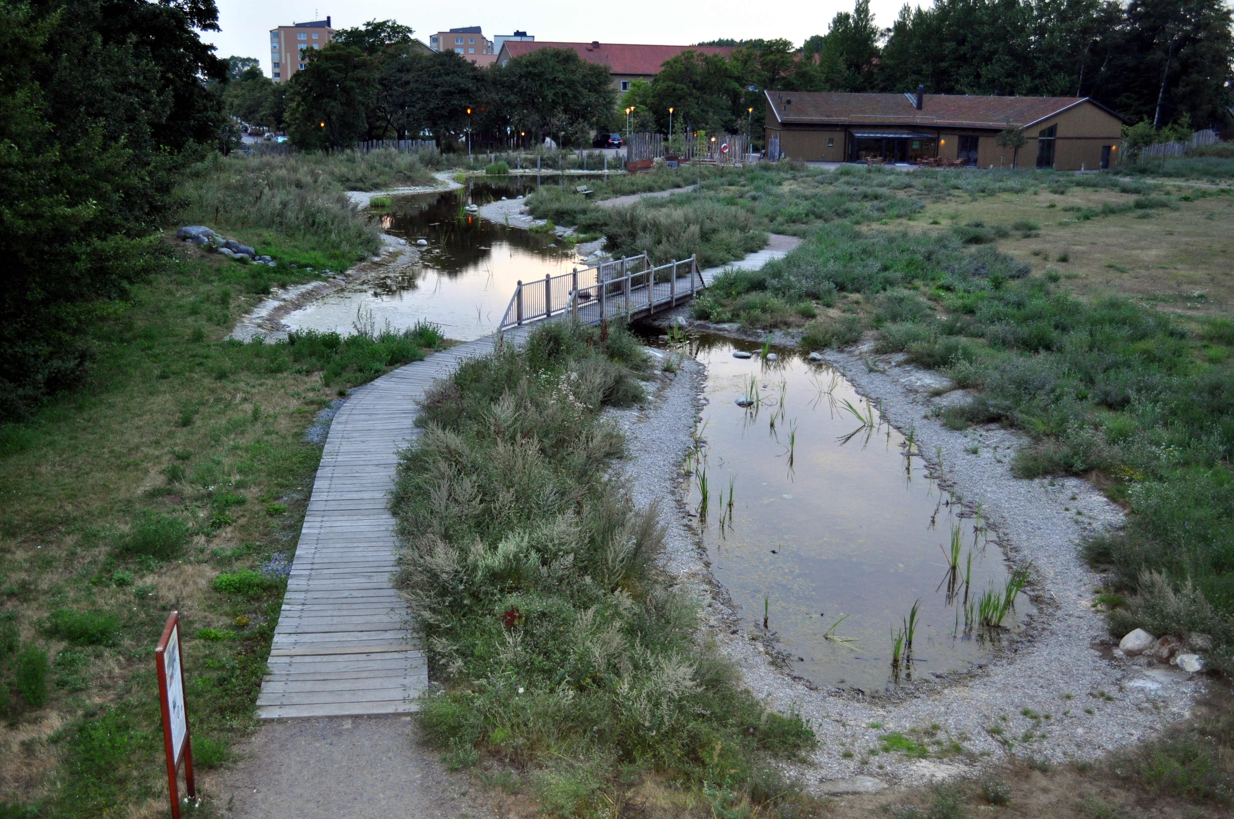 Area in front of the Trelleborg in Trelleborg (Sweden).